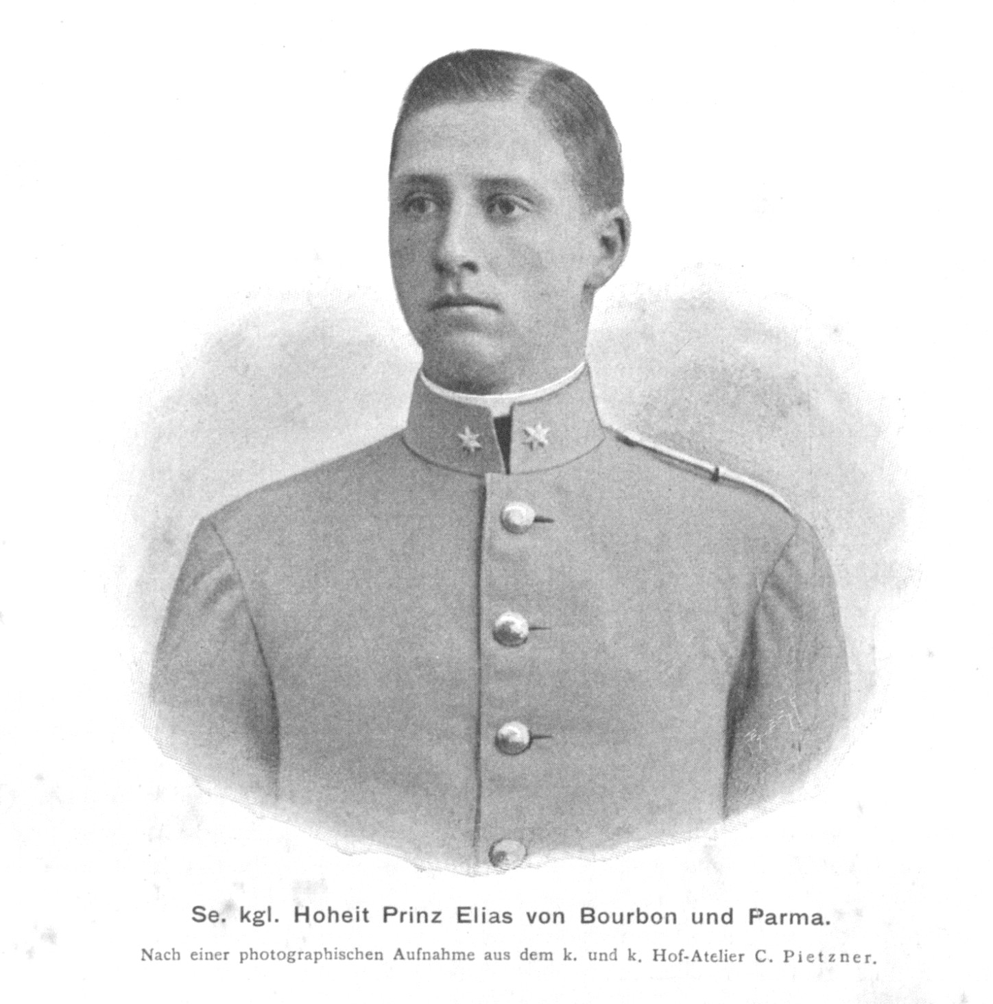 Portrait of Elias, Duke of Parma (1880-1959), pretender for the throne in Parma and Piacenza.